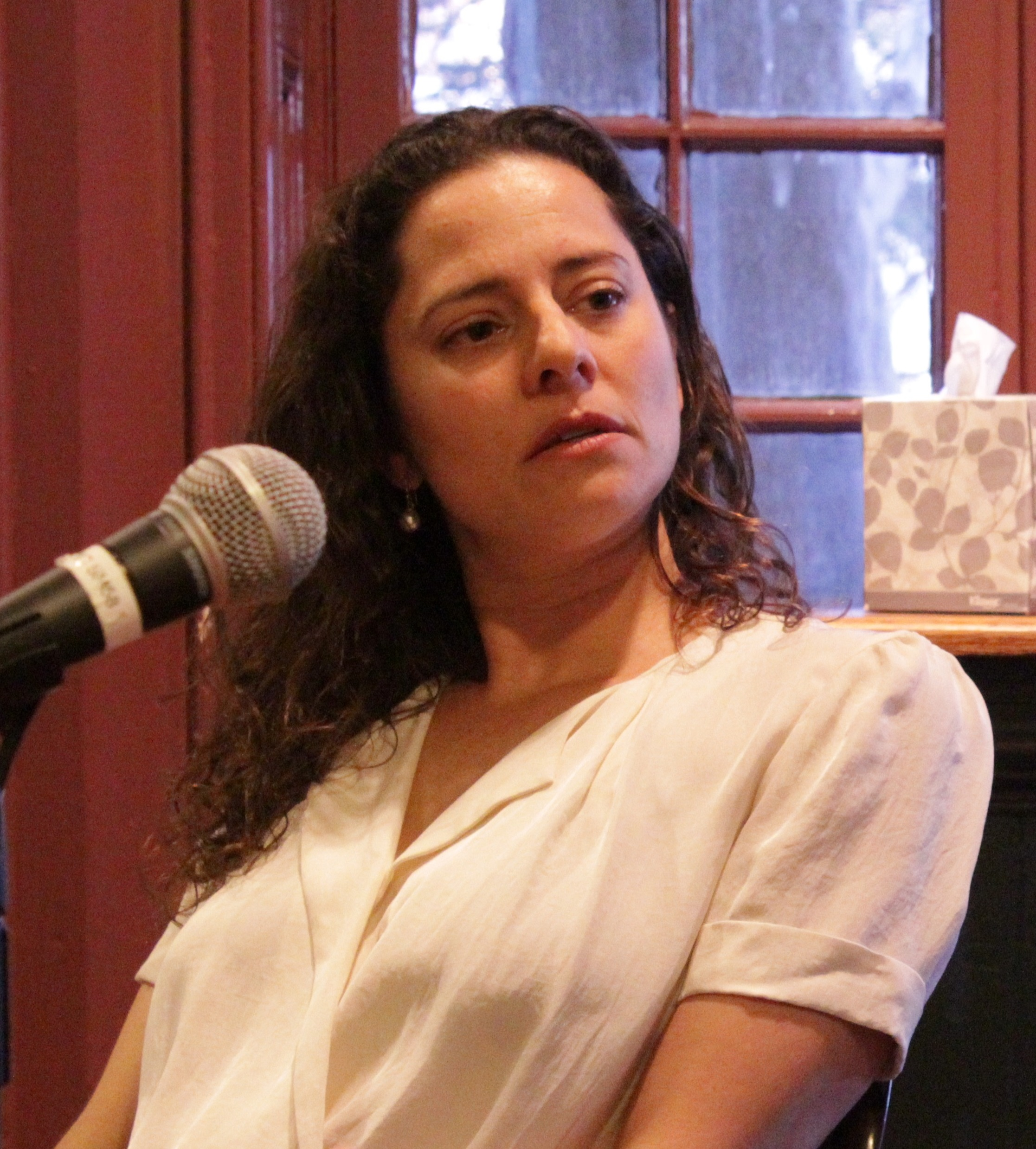 American journalist and author Ariel Levy, speaking at the Kelly Writers House of the University of Pennsylvania in Philadelphia.